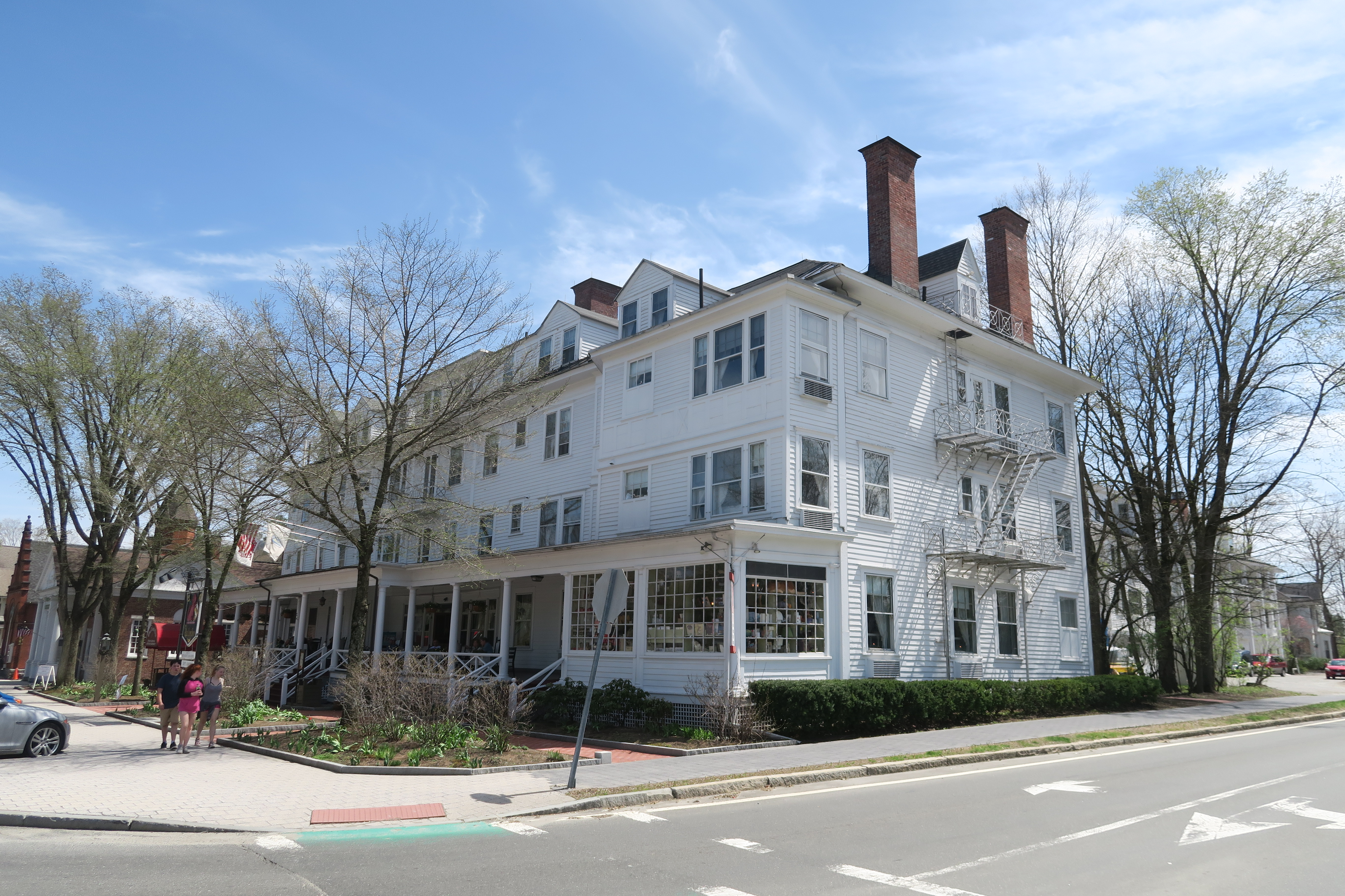 Red Lion Inn, Stockbridge Massachusetts